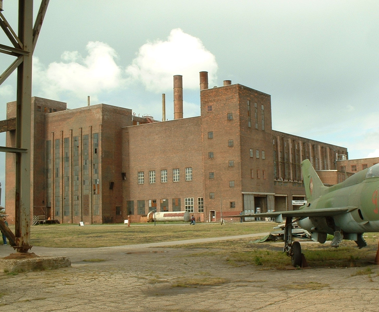 the former powerplant of the Heeresversuchsanstalt Peenemünde